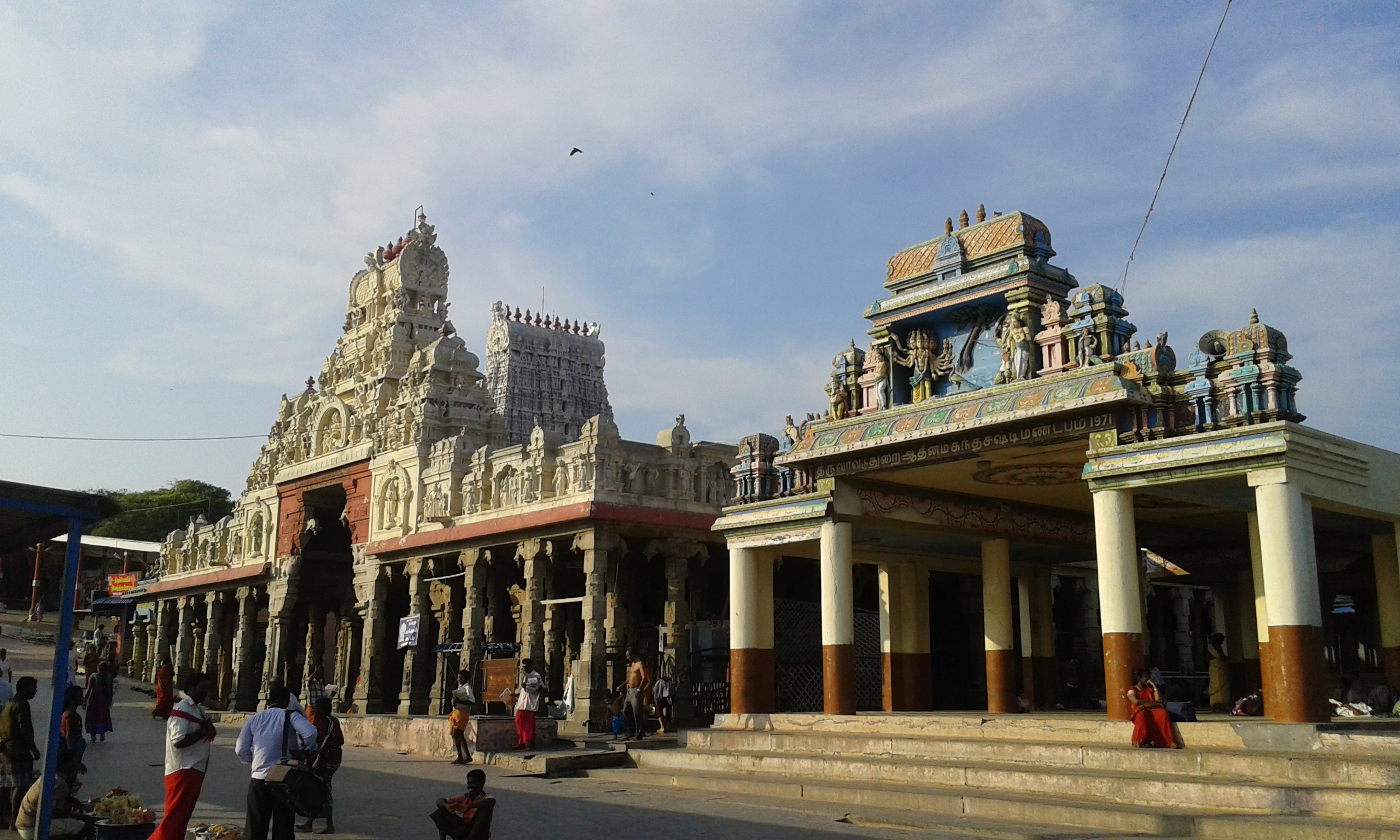 Thiruchendur